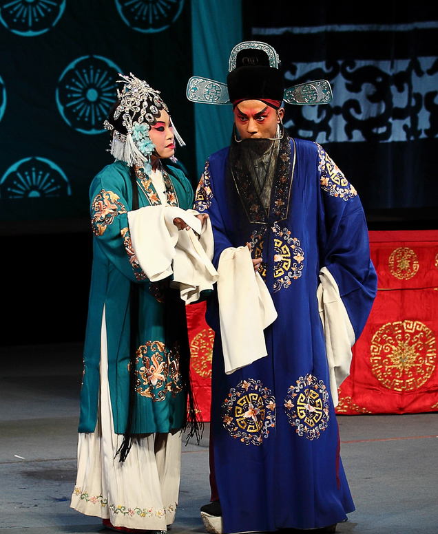 yuju opera